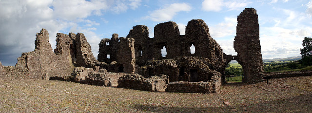 Brough Castle Panorama. Like its nearby Clifford cousin Brougham castle, Brough castle was built to the south of a Roman fort or camp, in this case called Verteris, which was built to keep the northern Brigantes tribe in check